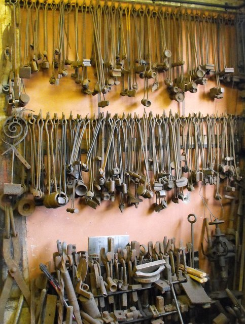 Blacksmith's tools. A small part of the large collection of tools used by a working architectural metal worker. I think most of these are swages, used to form particular shapes. These were hanging on the wall, out of shot to the left in 1483351. All my photos of this building